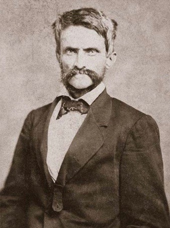 John Anthony Winston (1812–1871), Governor of Alabama (1853–1857)